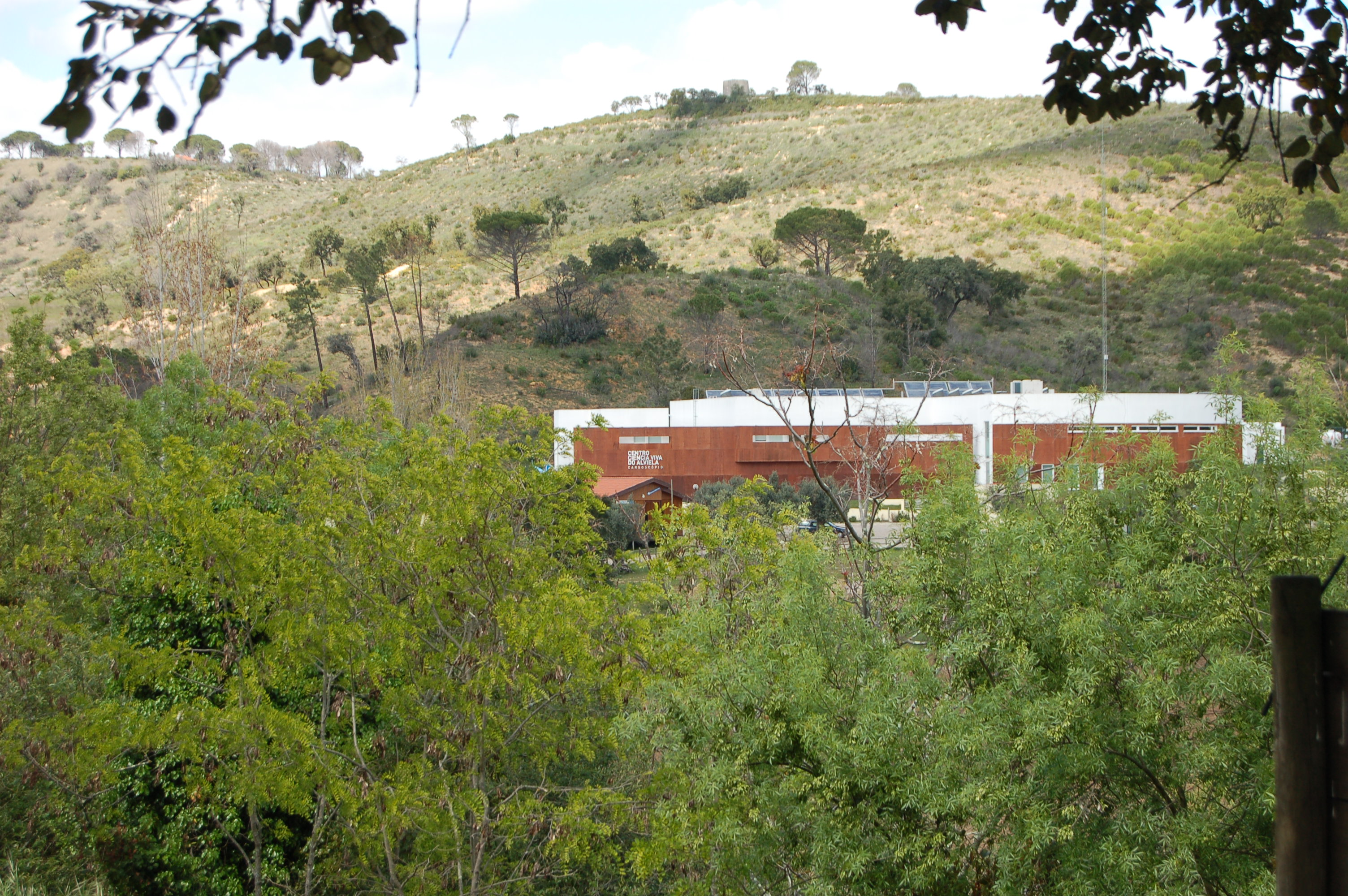 The Alviela Cência Viva Center - KARSTSCOPE